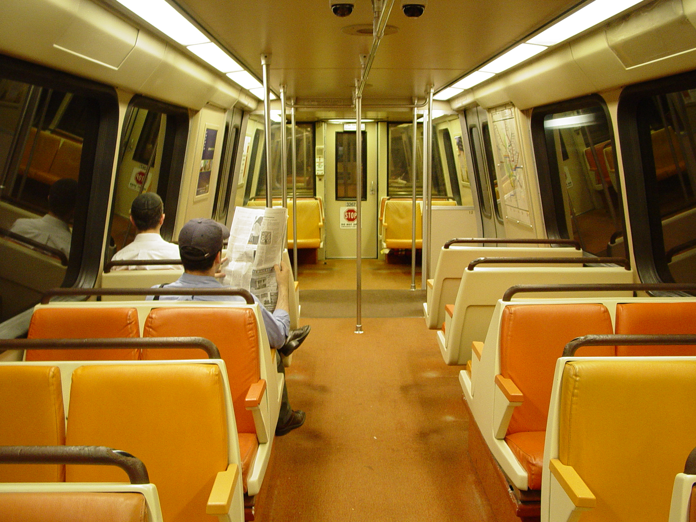 Interior of Breda 3267 on the Washington Metro.